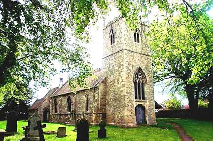 Parish church of St Michael and All Angels, Skelbrooke, South Yorkshire, seen from the northwest